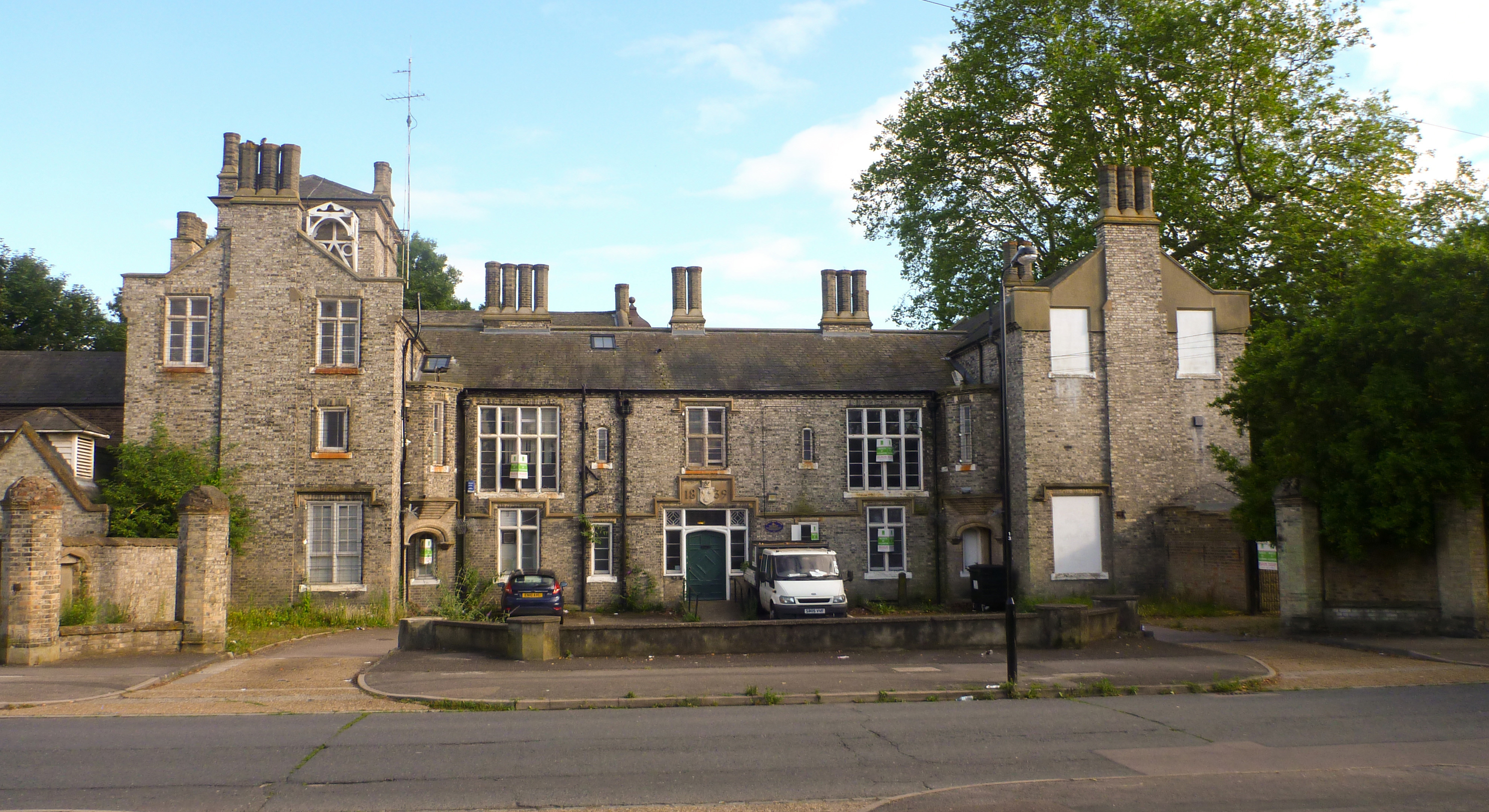 Friday Hill House There is an account of the history on London Gardens Online